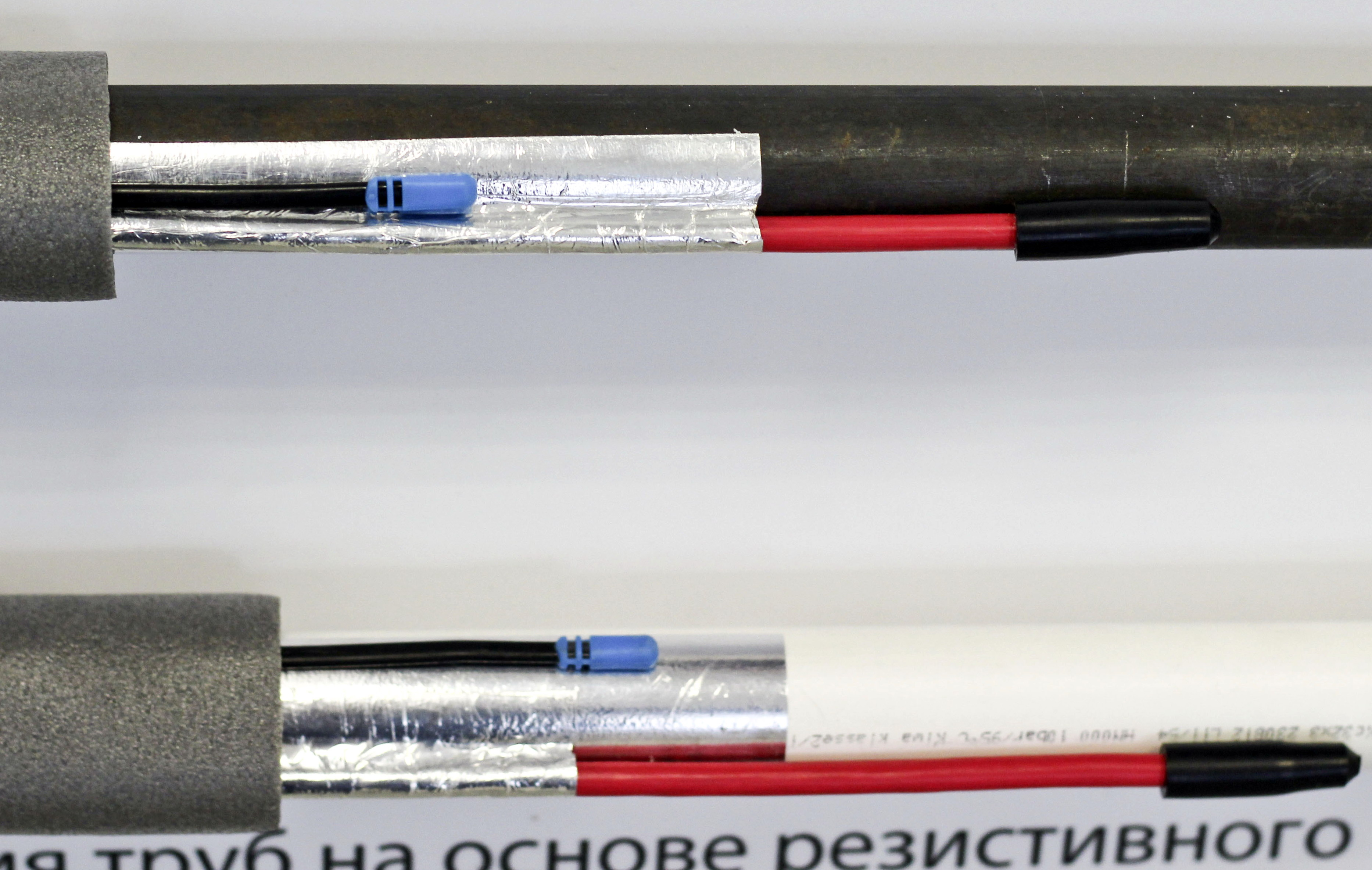 Resistant cable for heating pipes